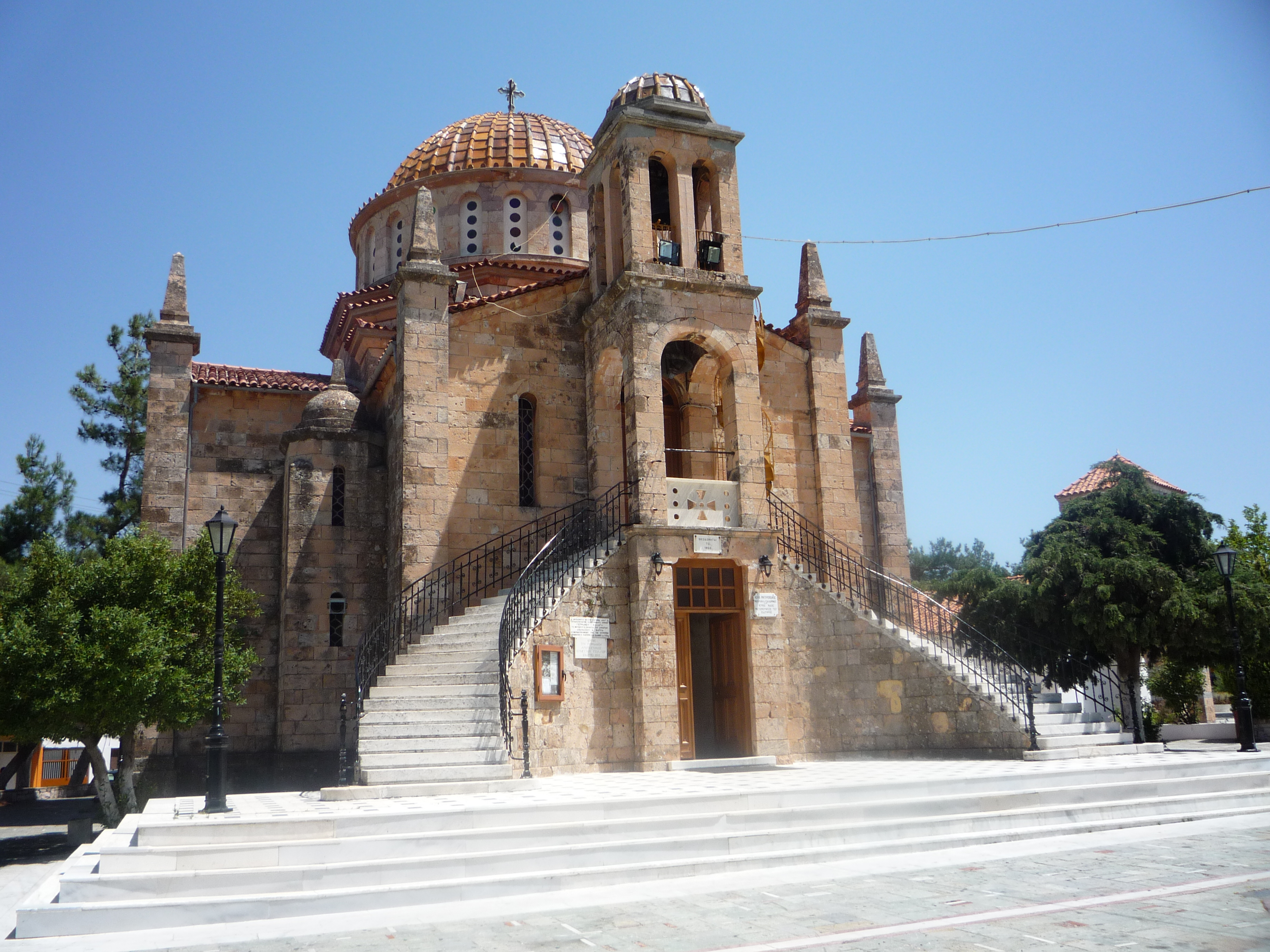 The church Metamorphosis Sotiros in Vilia, West Attica, Greece